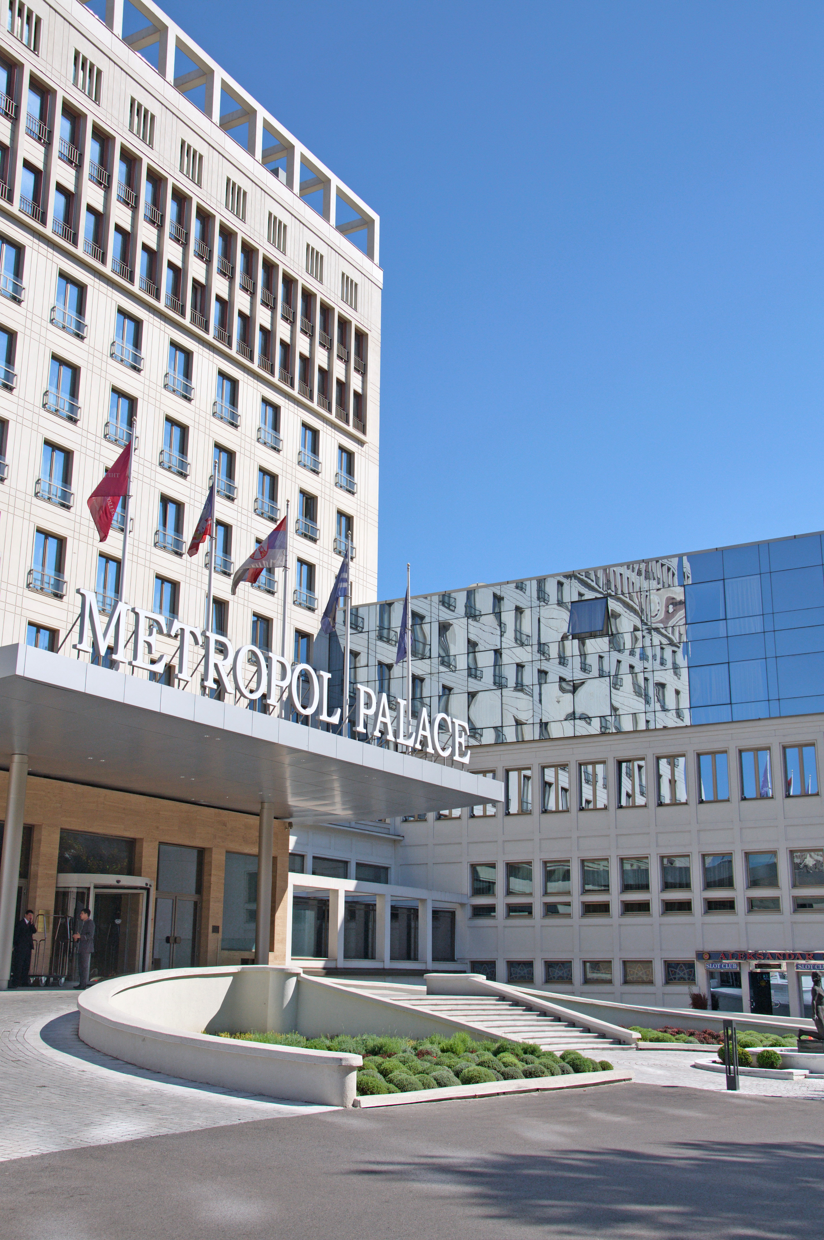 Hotel "Metropol" u Beogradu nalazi se u Bulevaru kralja Aleksandra. Podignut je početkom pedesetih godina XX veka. Prvobitna namena je dom omladine.